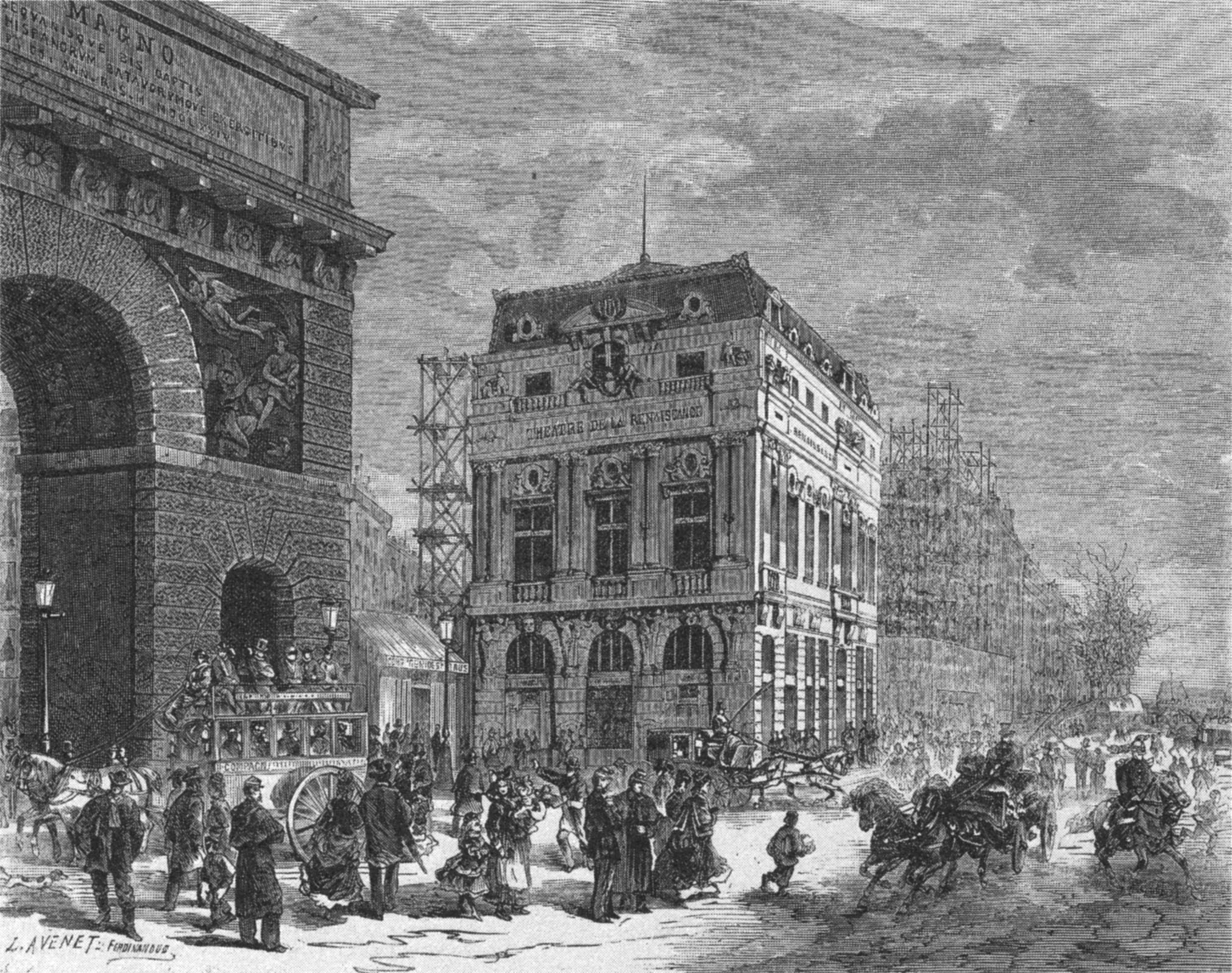 Théâtre de la Renaissance in Paris, which opened on 8 March 1873. The Porte Saint-Martin is in front of the theatre (on the left in the picture). The scaffolding visible to the right behind the Théâtre de la Renaissance is likely due to the reconstruction following the destruction by fire of the Théâtre de la Porte Saint-Martin in 1871 during the Paris Commune. The Théâtre de la Porte Saint-Martin is located immediately behind (east of) the Théâtre de la Renaissance.